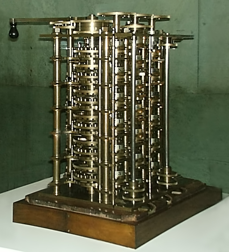 Charles Babbage's Difference engine No. 1 1832 in Science Museum London.